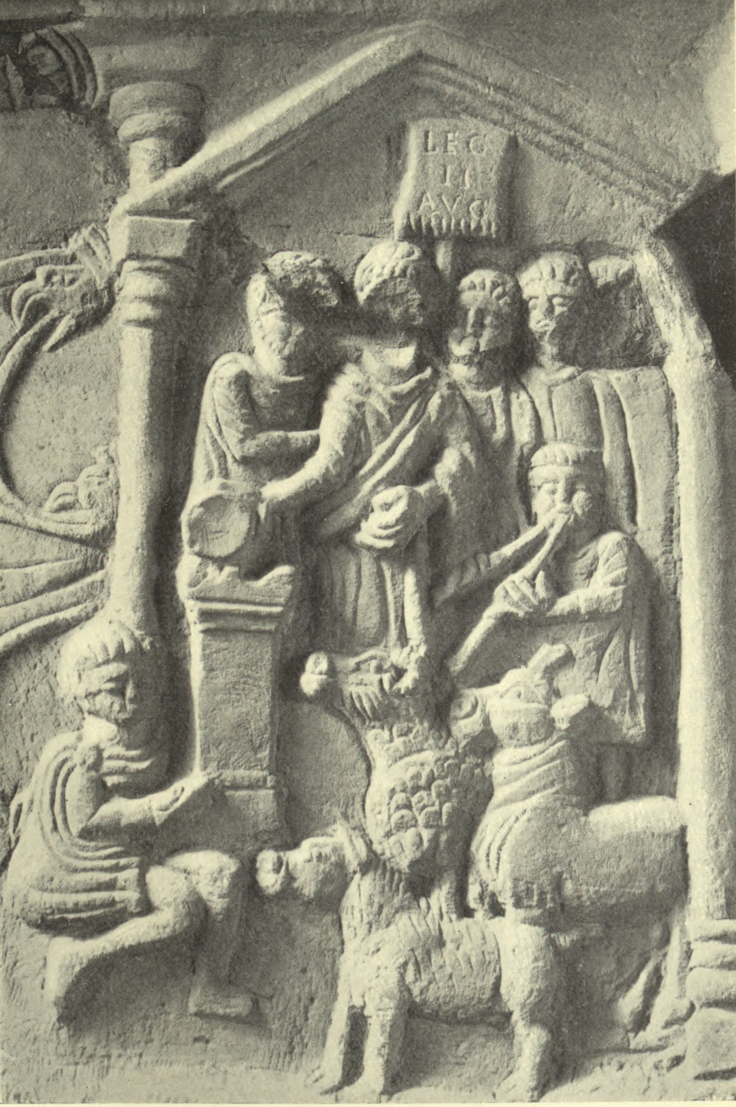 Right hand panel of the Bridgeness Slab from George MacDonald's Roman Wall in Scotland 1st edn.